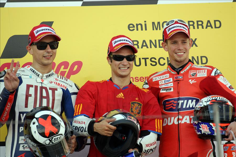 Jorge Lorenzo, Dani Pedrosa and Casey Stoner, all posing for the group photo after finishing in second, first and third place at the 2010 German Grand Prix.